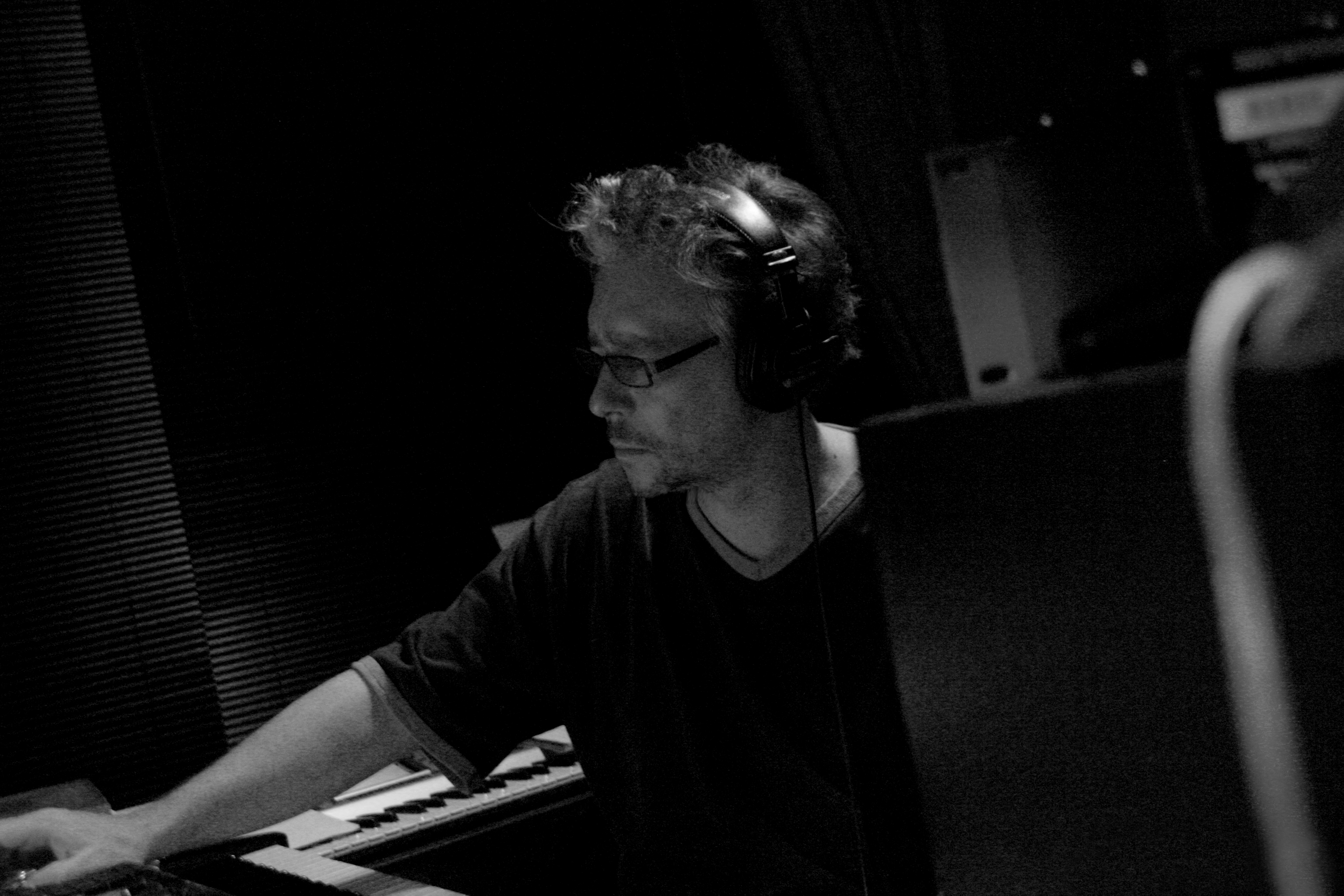 pix taken in the personnal studio